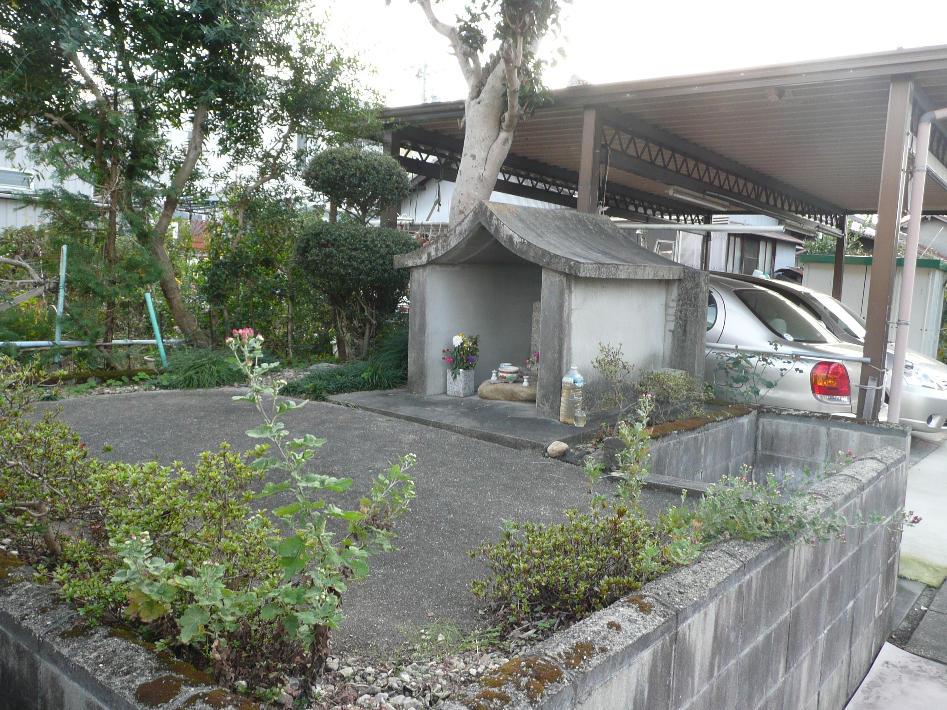 下大留城城主 谷口友之進の碑